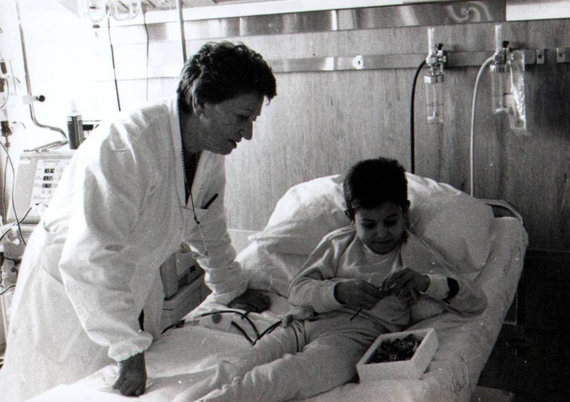 Rosanna Gusmano at the bedside of a child undergoing dyalisis